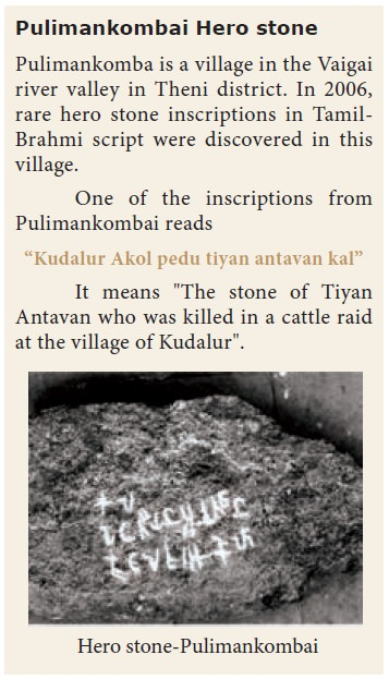 " நடு கற்கள்- Laid stone " with Tamizhi Epigraphy Script "அந்துவன்- meaning First Hero or king" is found is all over Tamil Nadu . Known as Hero stones of the Sangam Age with Tamizhi -"Tamil-Brahmi" inscriptions is found at Pulimankombai in Theni district about 6th Century BC.